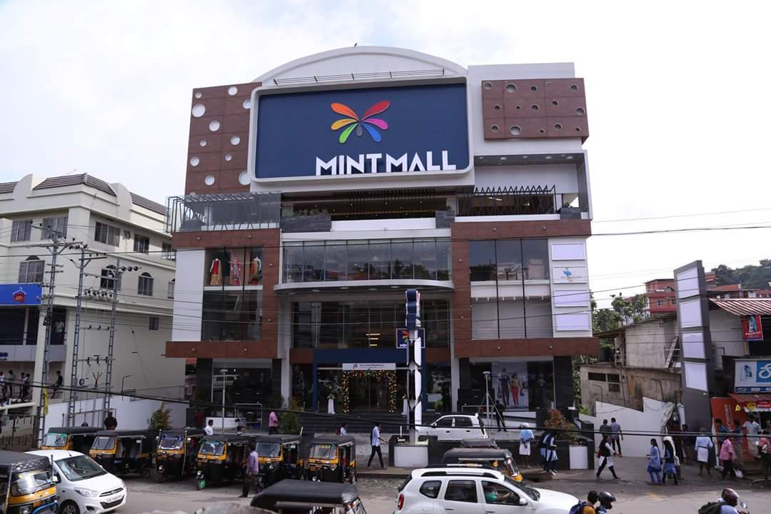 Mint mall located at Chungam, Sulthan bathery